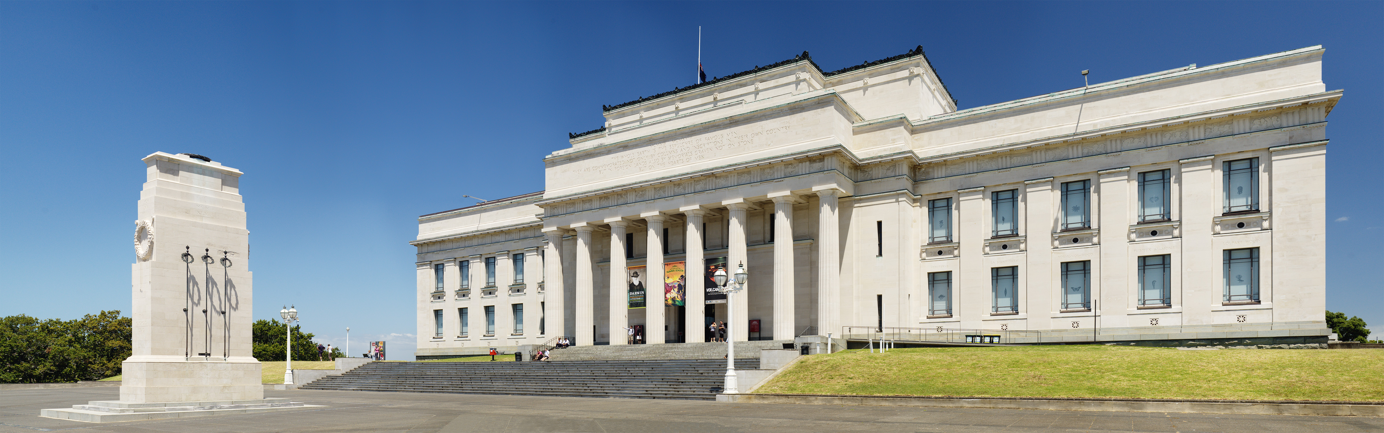 23 piece panorama of the Auckland War Memorial Museum, in rectilinear projection. The ground in the middle had been cloned as I have forgotten to take the projection into account.